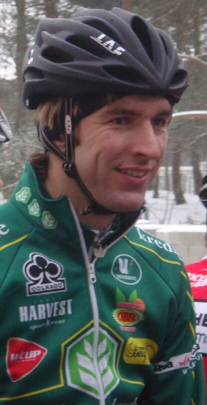 Dirk Bellemakers at cyclocross Mol 2010